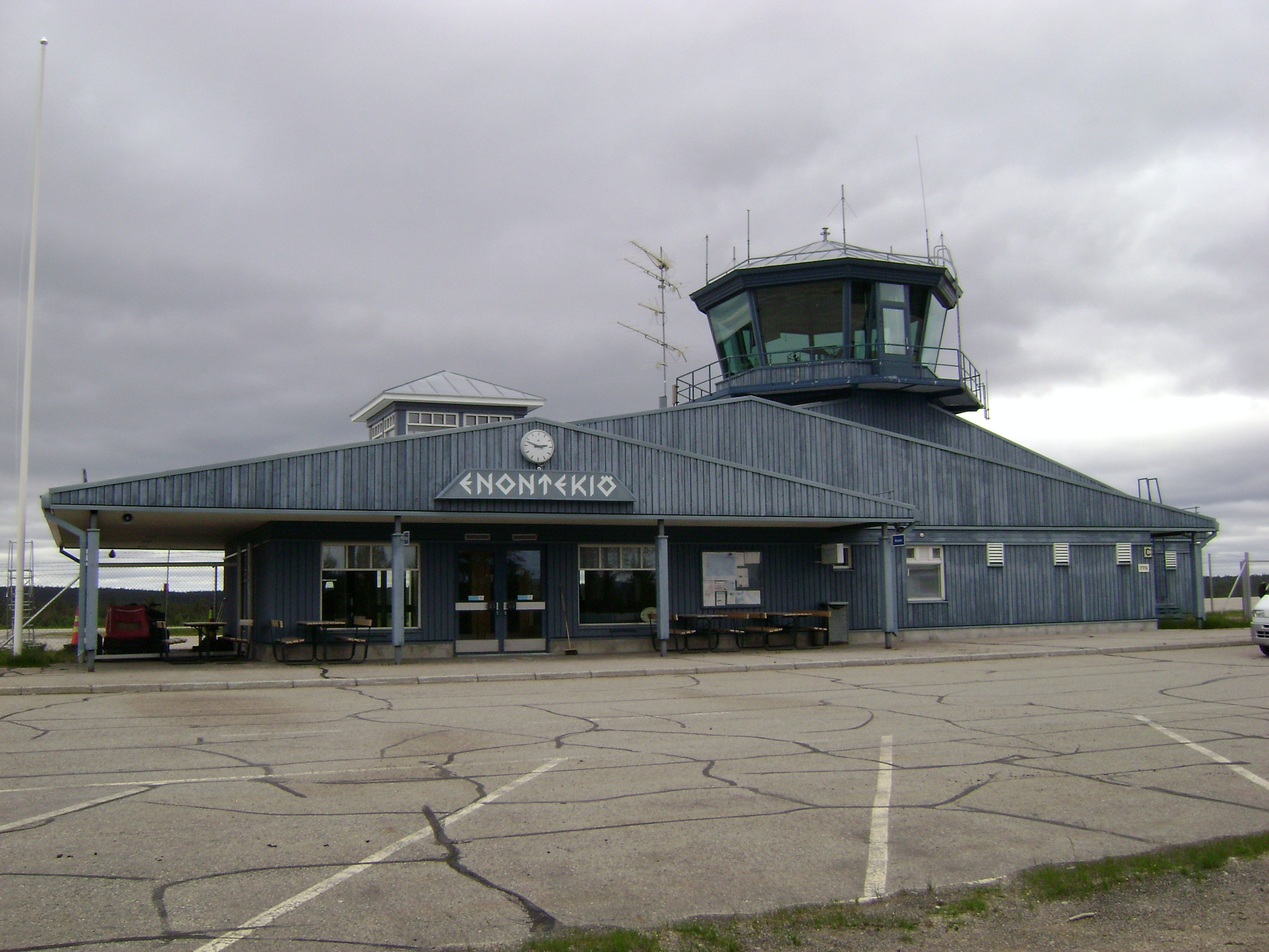 Terminal and tower of Enontekiö Airport in Enontekiö, Finland